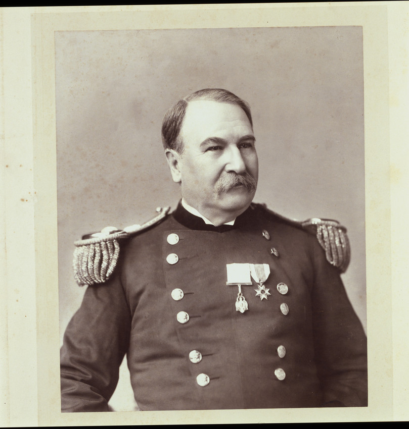 2.25Transparency: Thomas Lincoln Casey in uniform